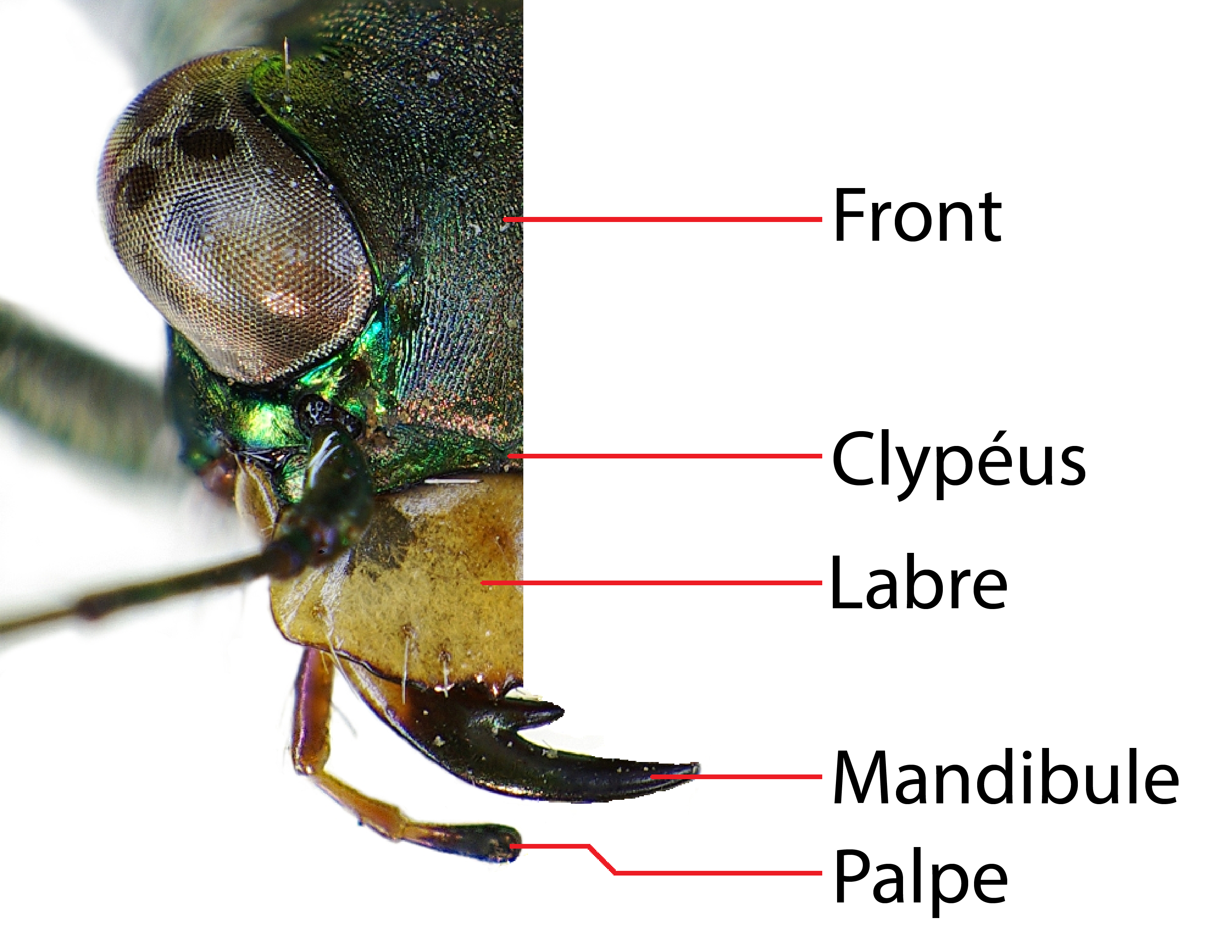 Mouth parts coleoptera